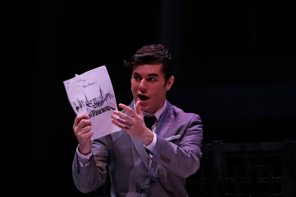 How To Succeed in Business